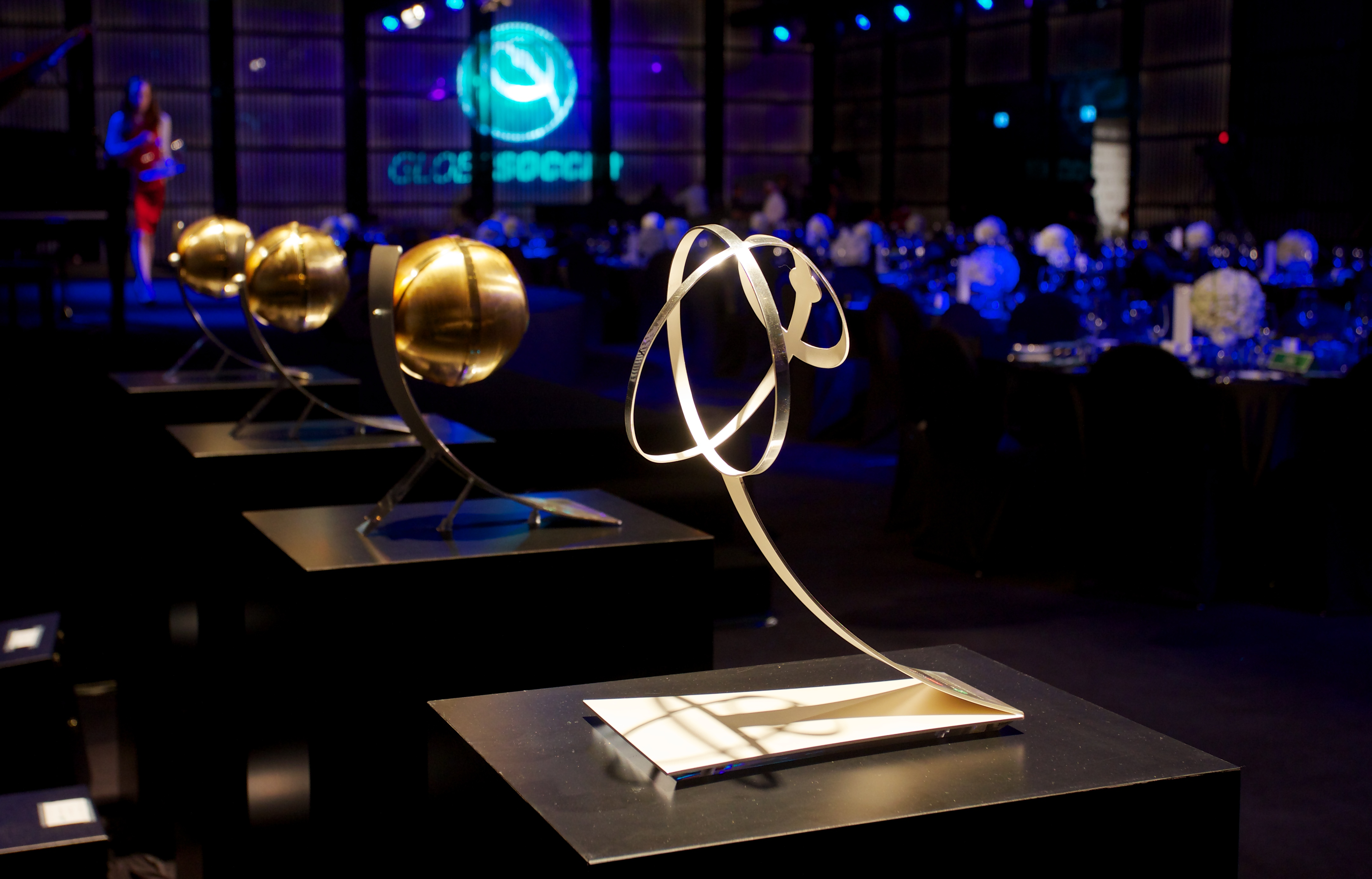 Globe Soccer Awards - Los premios